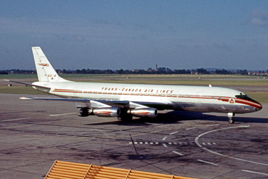 Douglas DC-8-42 CF-TJE of Trans Canada Airlines at London Heathrow in 1962